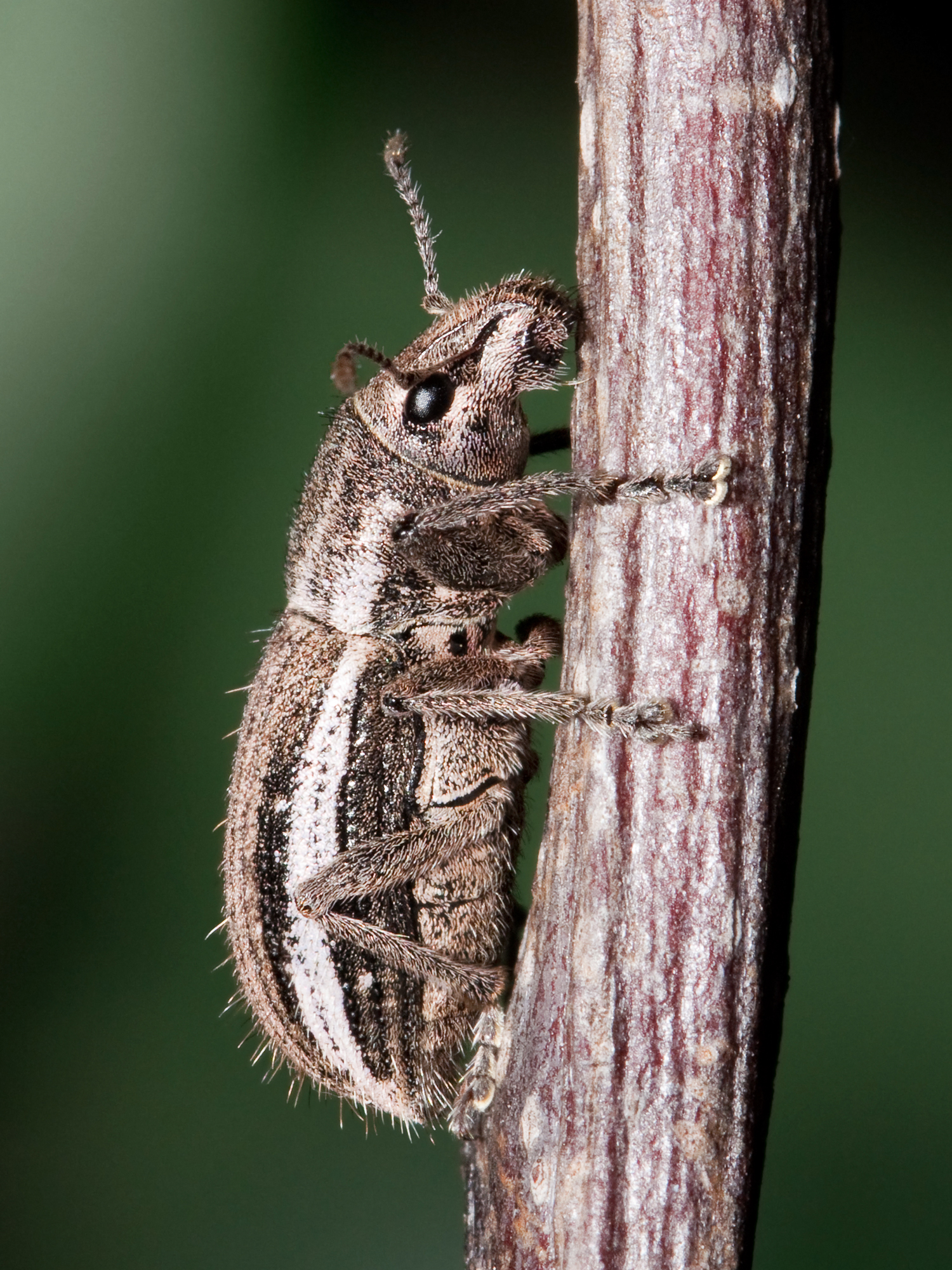 White-fringed Weevil (probably Naupactus peregrinus or Naupactus leucoloma) found at Shelby Park in Nashville, Tennessee. Image focus stacked from three photographs.